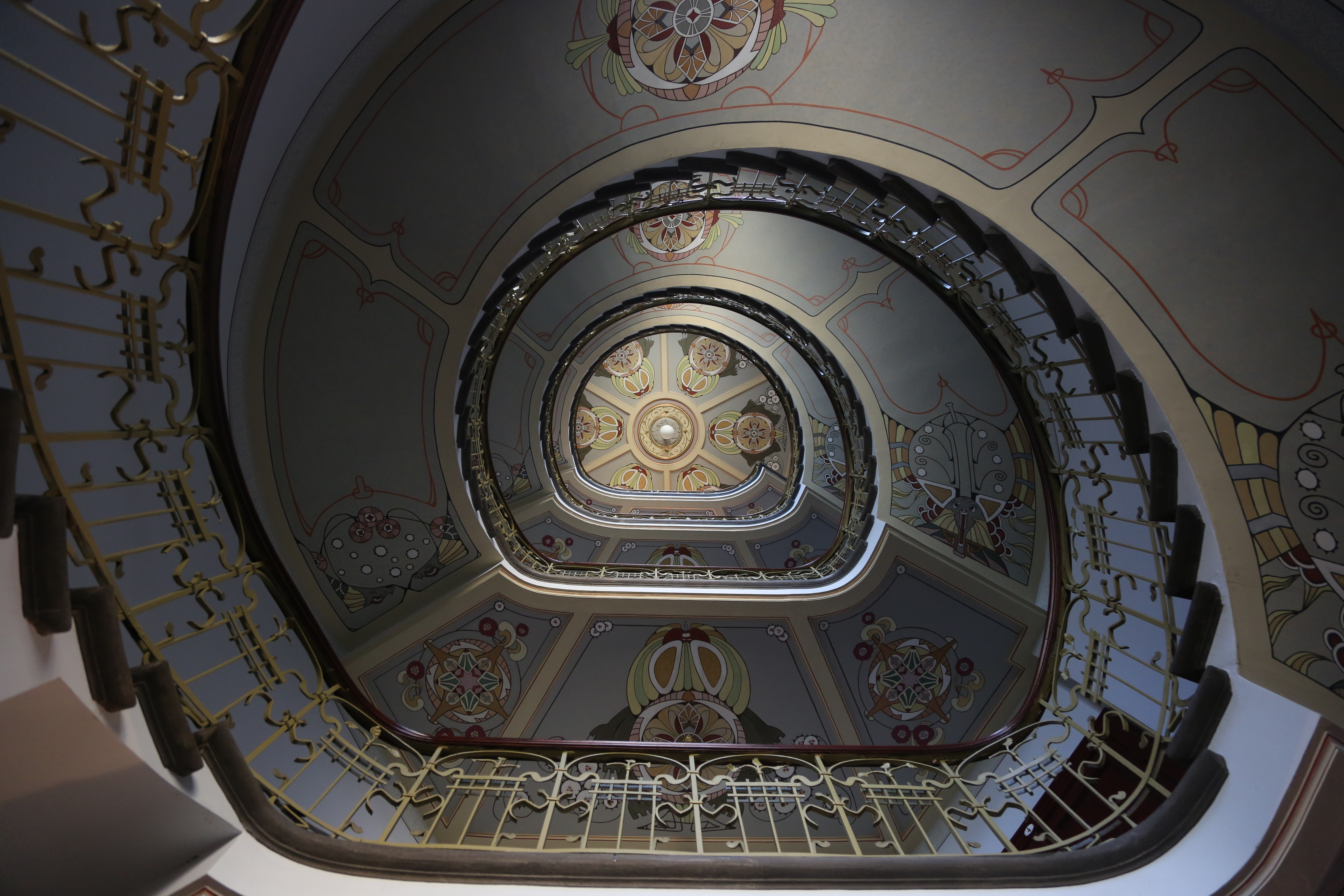 Staircase in Alberta ielā 12, Riga, Latvia. Building built 1903. Architects Konstantīns Pēkšēns and Eižens Laube